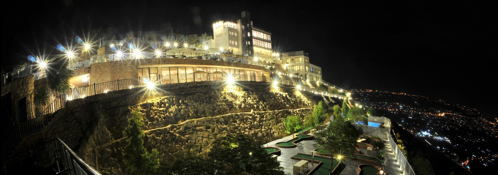 Jalaad Cultural Center